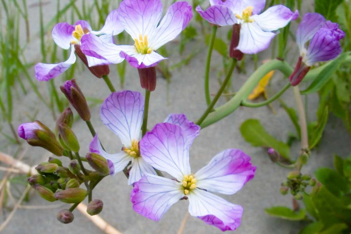 Hama-daikon (Raphanus sativus var. hortensis raphanistroides)